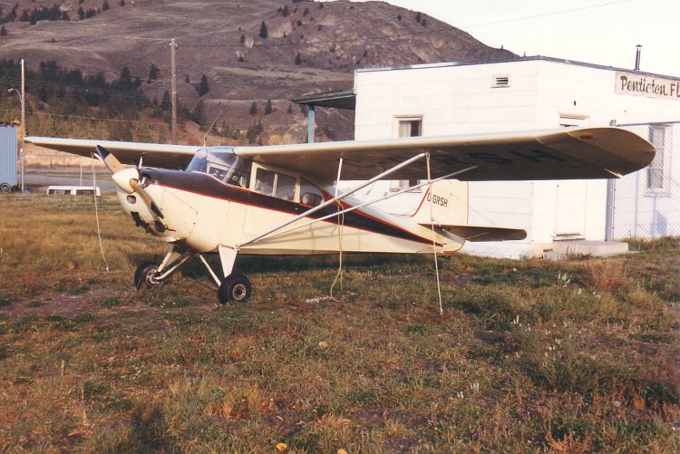 I took this photo of Aeronca 11AC Chief C-GRSH at Penticton BC in 1986.